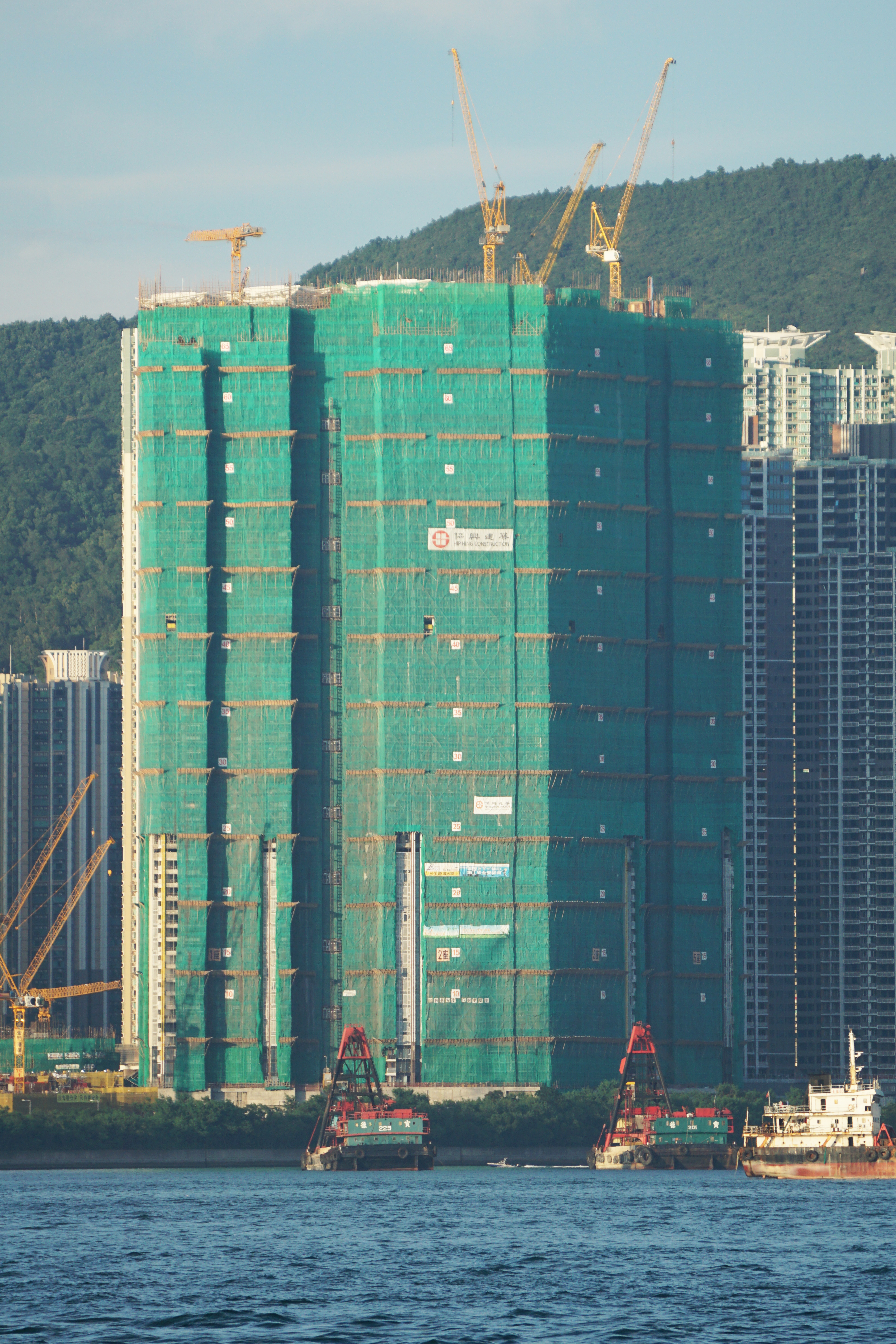 LP6 in Tai Chik Sha, Hong Kong.